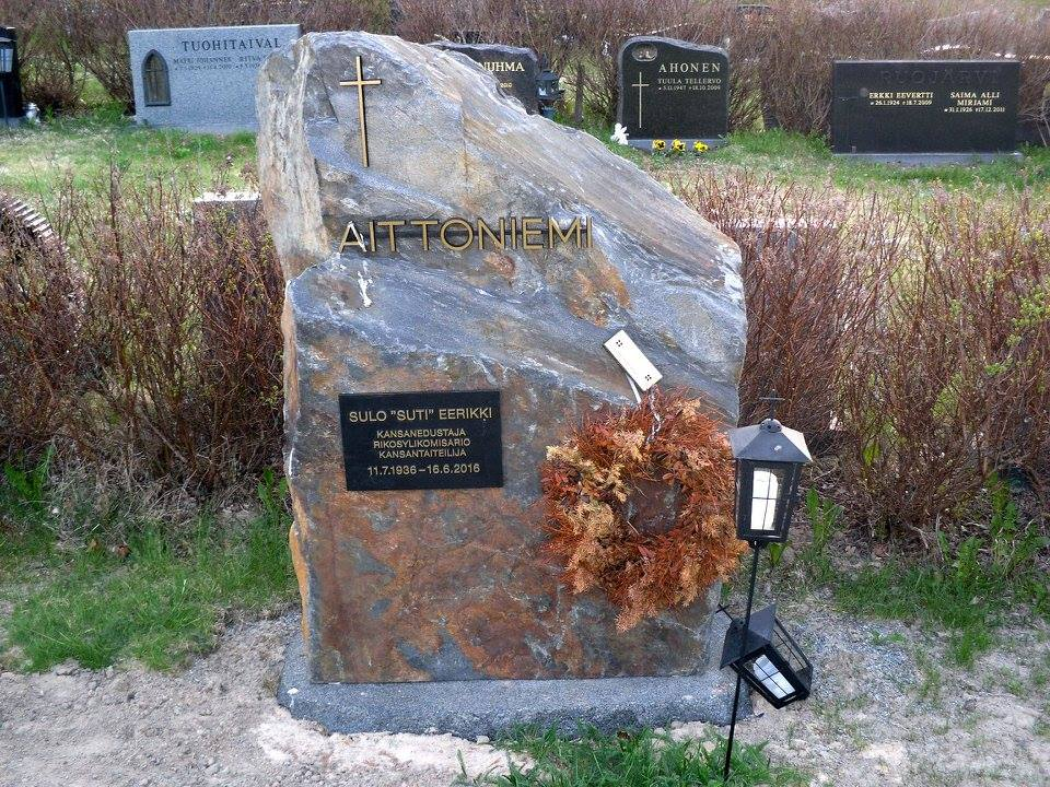 Tombstone of representative Sulo Aittoniemi